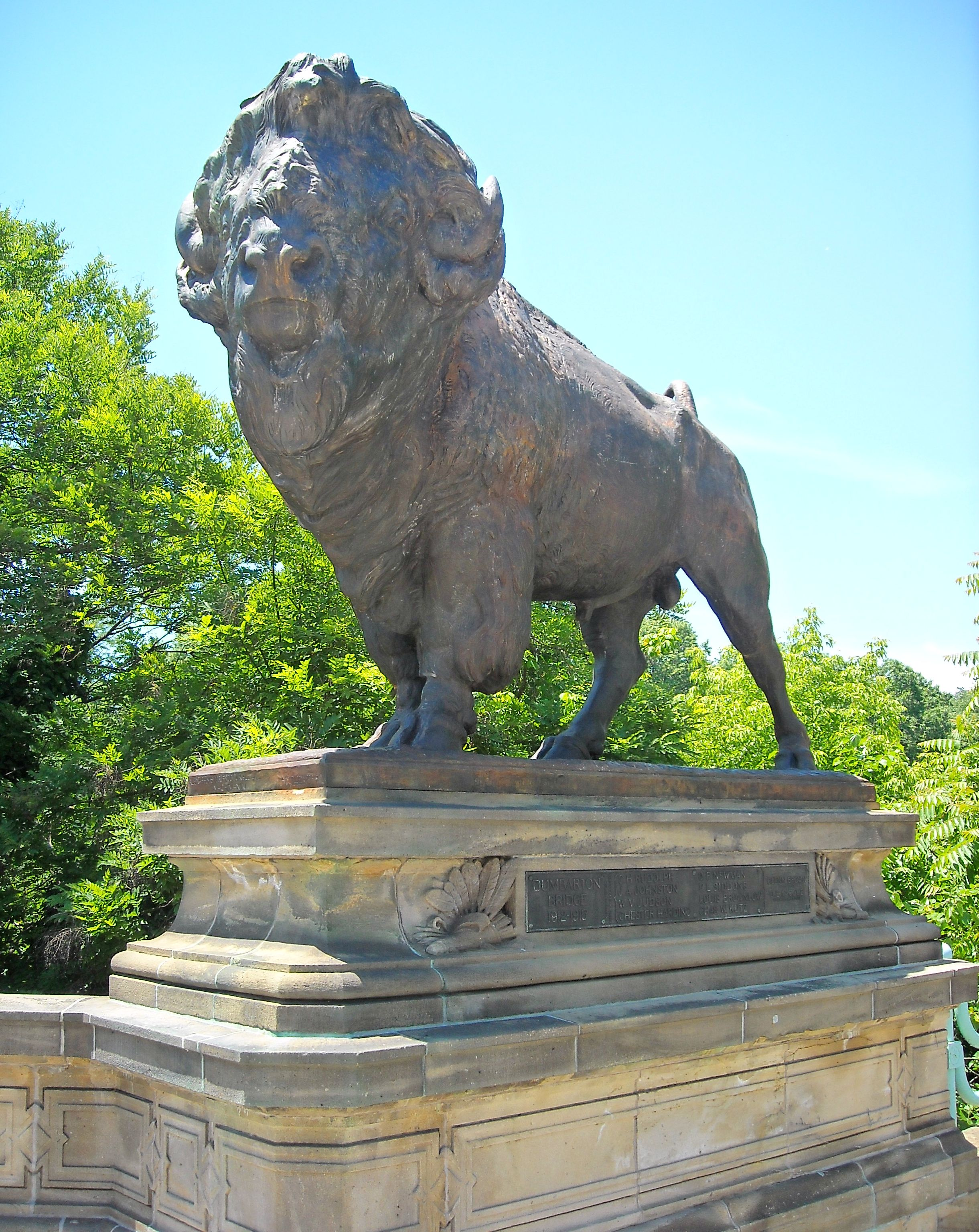 Buffalo statue at the entrance to the Dumbarton Bridge in Washington, D.C.